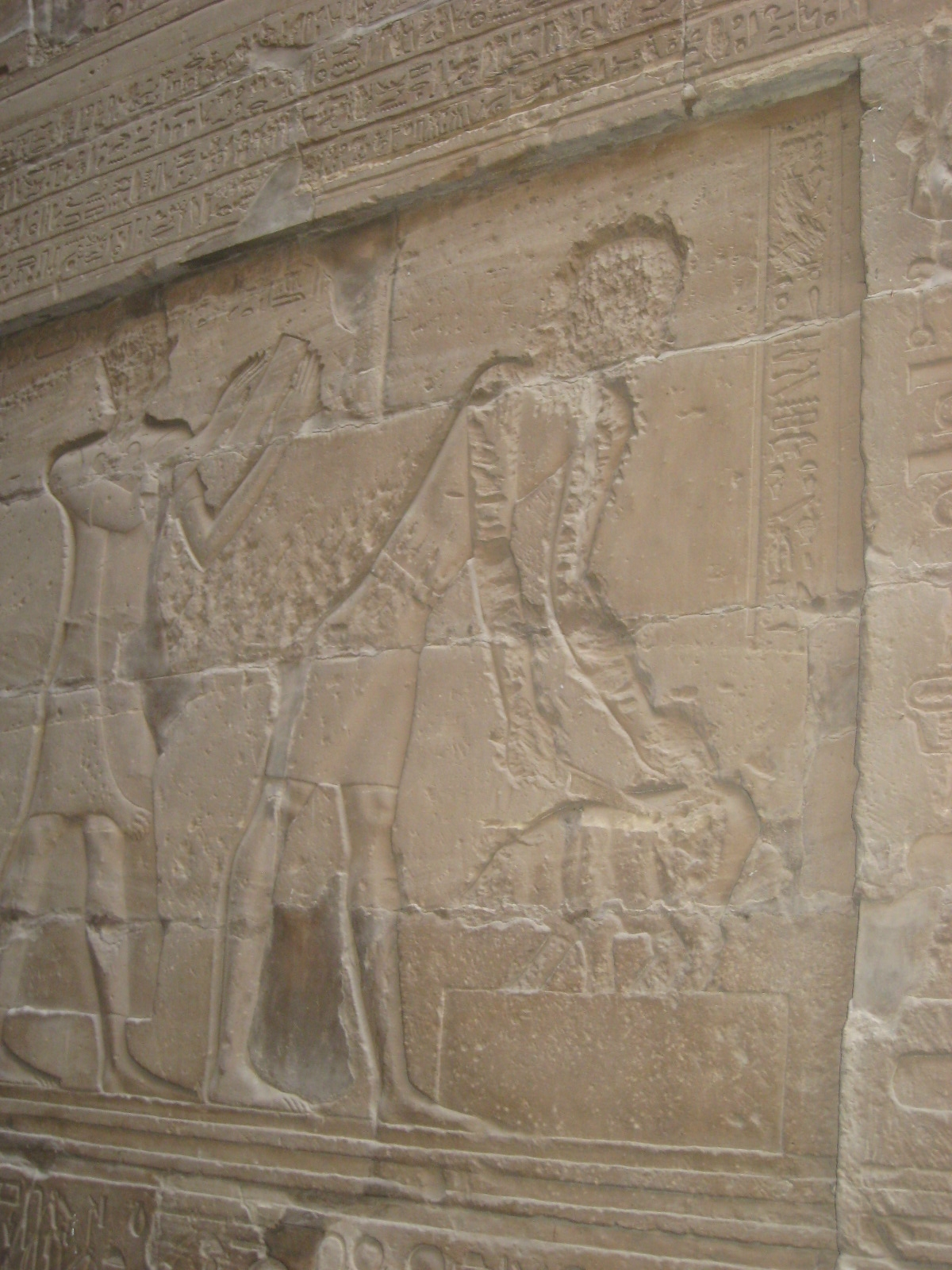 A scene from the ritual drama depicting the triumph of Horus over the god Seth in the form of a hippopotamus, from the outer ambulatory of the Ptolemaic temple of Horus at Edfu.